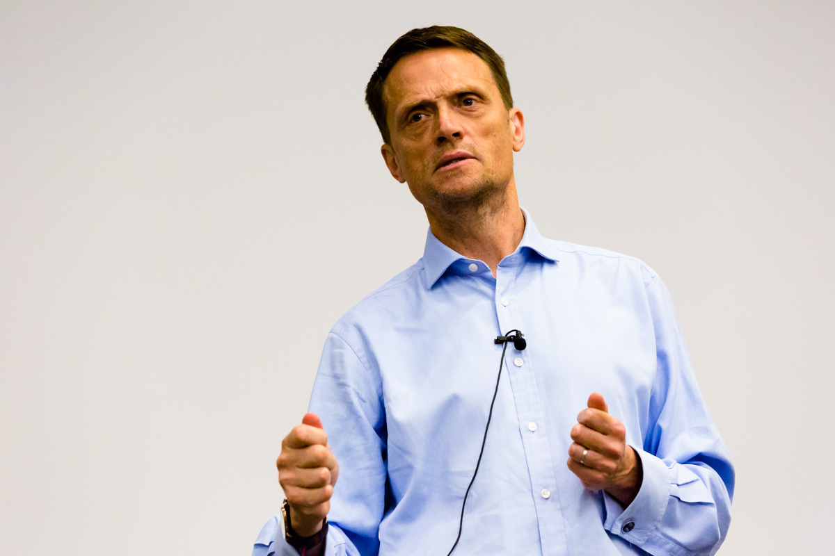 Matthew Taylor, Chief Executive of the Royal Society for the Encouragement of Arts, Manufactures and Commerce, UK, delivers a Keynote Address entitled “Think Like a System, Act Like an Entrepreneur” at The European Conference on Education (ECE). Prior to becoming Chief Executive of the RSA, Matthew Taylor was Chief Adviser to Prime Minister Tony Blair, as head of the Number 10 Policy Unit, and is the author of the 2017 Taylor Review of Modern Working Practices, commissioned by the incumbent UK government.